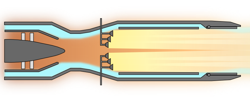 Afterburner cut view model